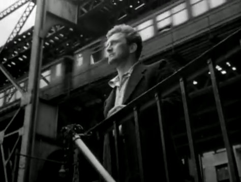 Photograph of Kirk Douglas from the movie Young Man With a Horn, with a Third Avenue El station in the background.